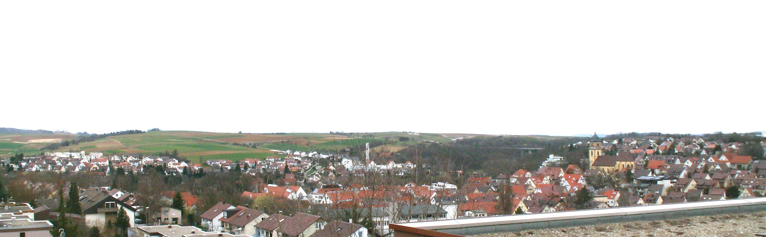 This picture shows the panorama of Schwieberdingen in South Germany